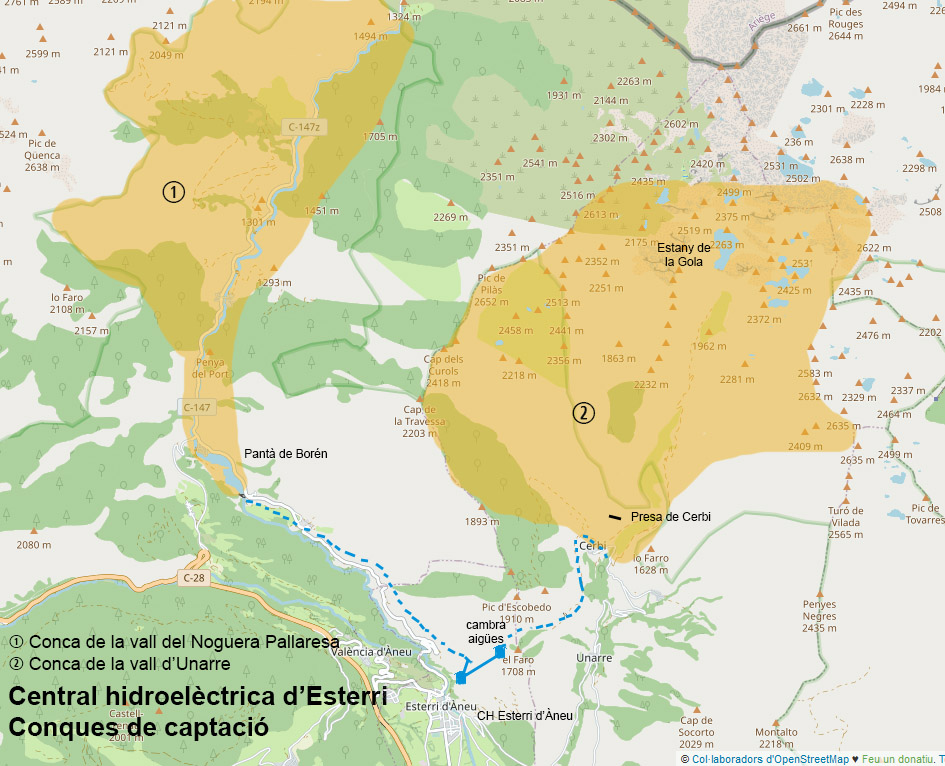 Esterri d'Àneu hydroelectric power plant water basins (Catalan Pyrenees)